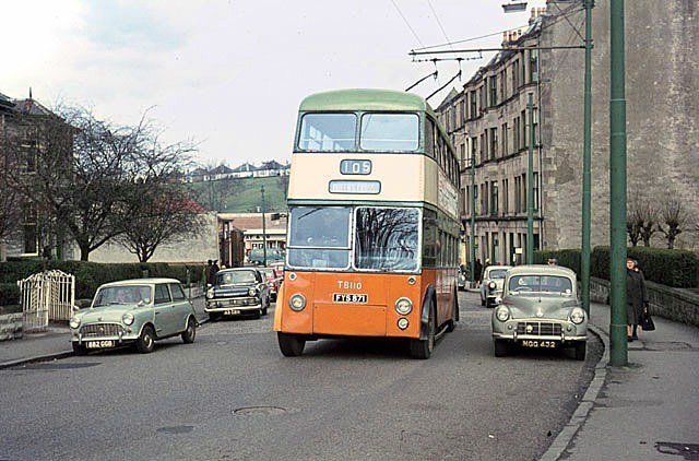 British Trolleybuses - Glasgow Route 105 ran from Queens Cross in the City Centre to a terminus near Clarkston Station in the south of the City. The terminus was here on Mearns Road. On the right is a typical Scottish tenement block. It is worth noting that these were not the preserve of working class areas; there were many of appropriate quality in middle class areas too. For a slide show of British Trolleybuses in the late 60s Glasgow trolleybus 110 was built in the late 1950s by British United Traction (BUT).